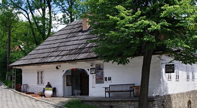 Cafe Arka